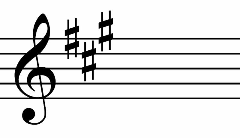 A major/F sharp minor